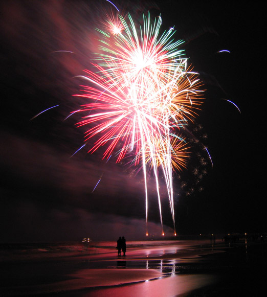 Author: Myself (User:Steevven1). I own . URL